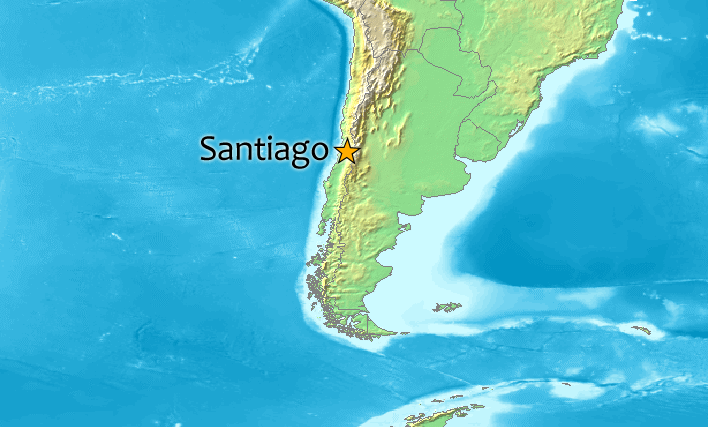 Locator map of Santiago de Chile